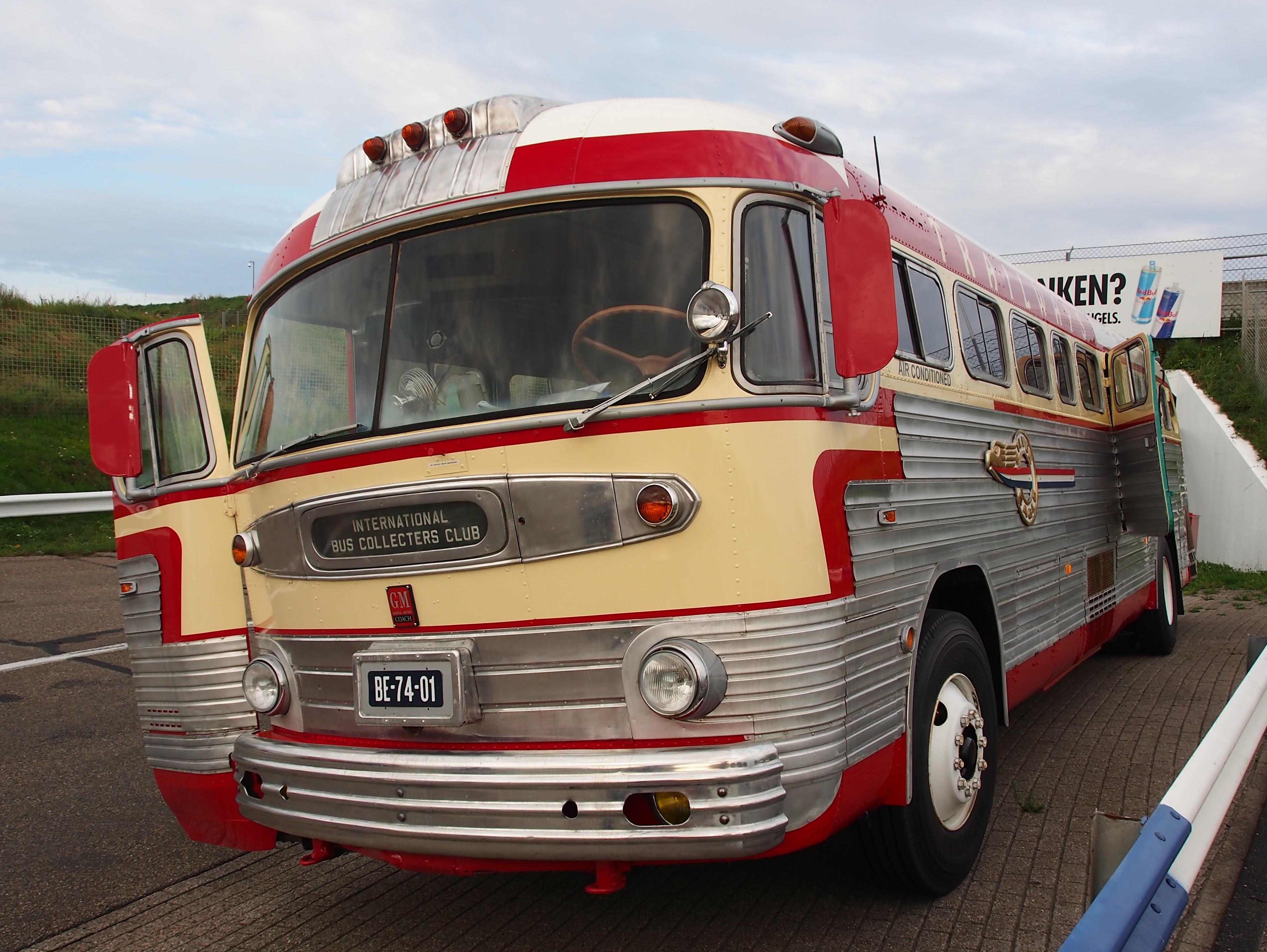 Photographed at the Nationaal Oldtimer Festival Zandvoort 2014, The Netherlands.